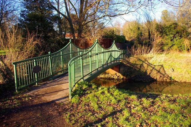 Millennium bridge at Abington, near to Great Abington, Cambridgeshire, Great Britain. This footbridge over the Granta, linking the parishes of Great and Little Abington, was constructed and presented in 2000 by Granta Park and TWI. Link